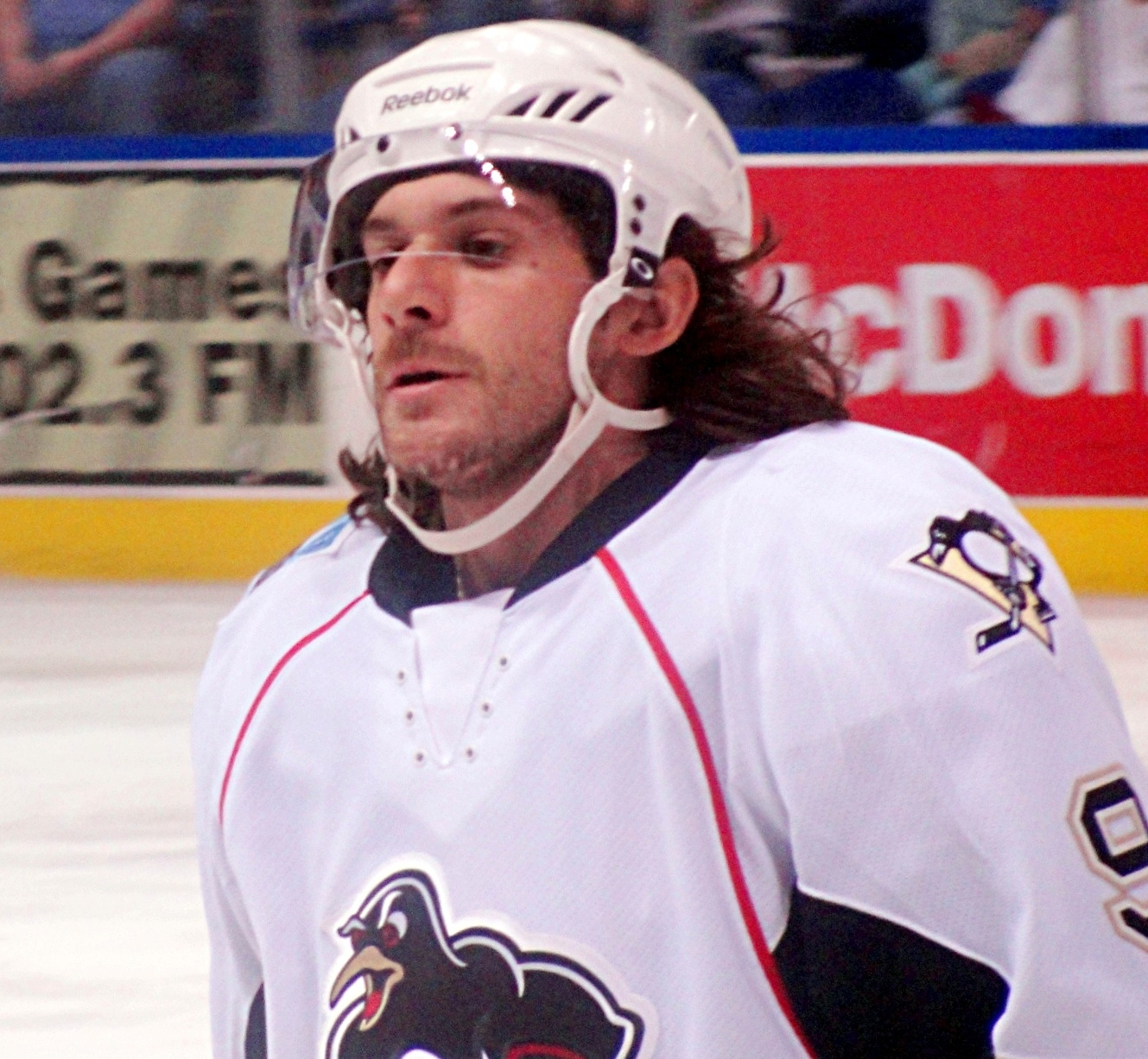 Wilkes-Barre/Scranton Penguins center Brian Gibbons during a AHL Calder Cup Playoffs second round game against the St. John's IceCaps, May 5, 2012 at Mohegan Sun Arena at Casey Plaze in Wilkes-Barre, PA.